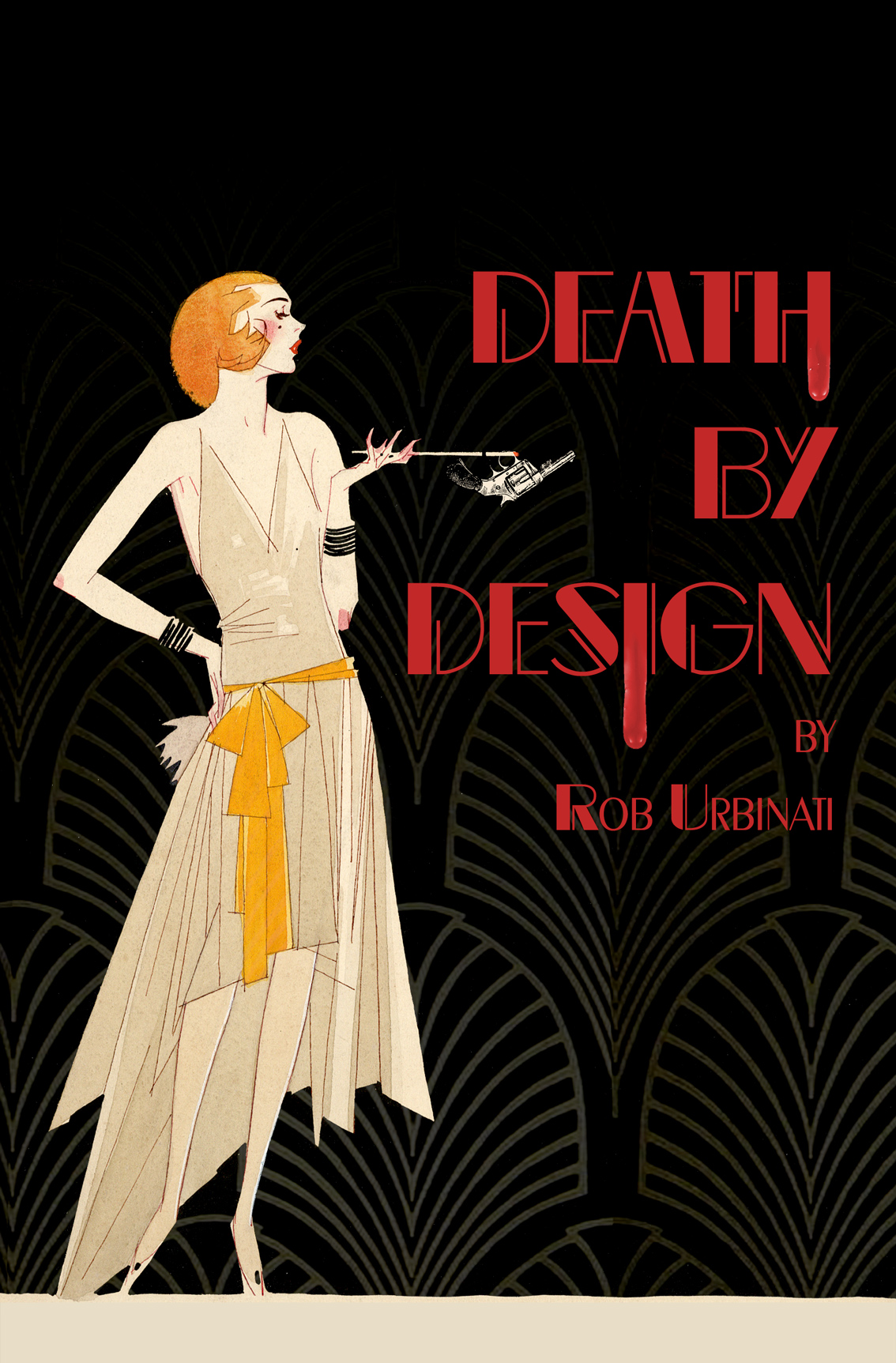 Promotional image for the play "Death by Design" by Rob Urbinati, created for the production staged by Live Theatre Workshop in Tucson, Arizona in 2018.